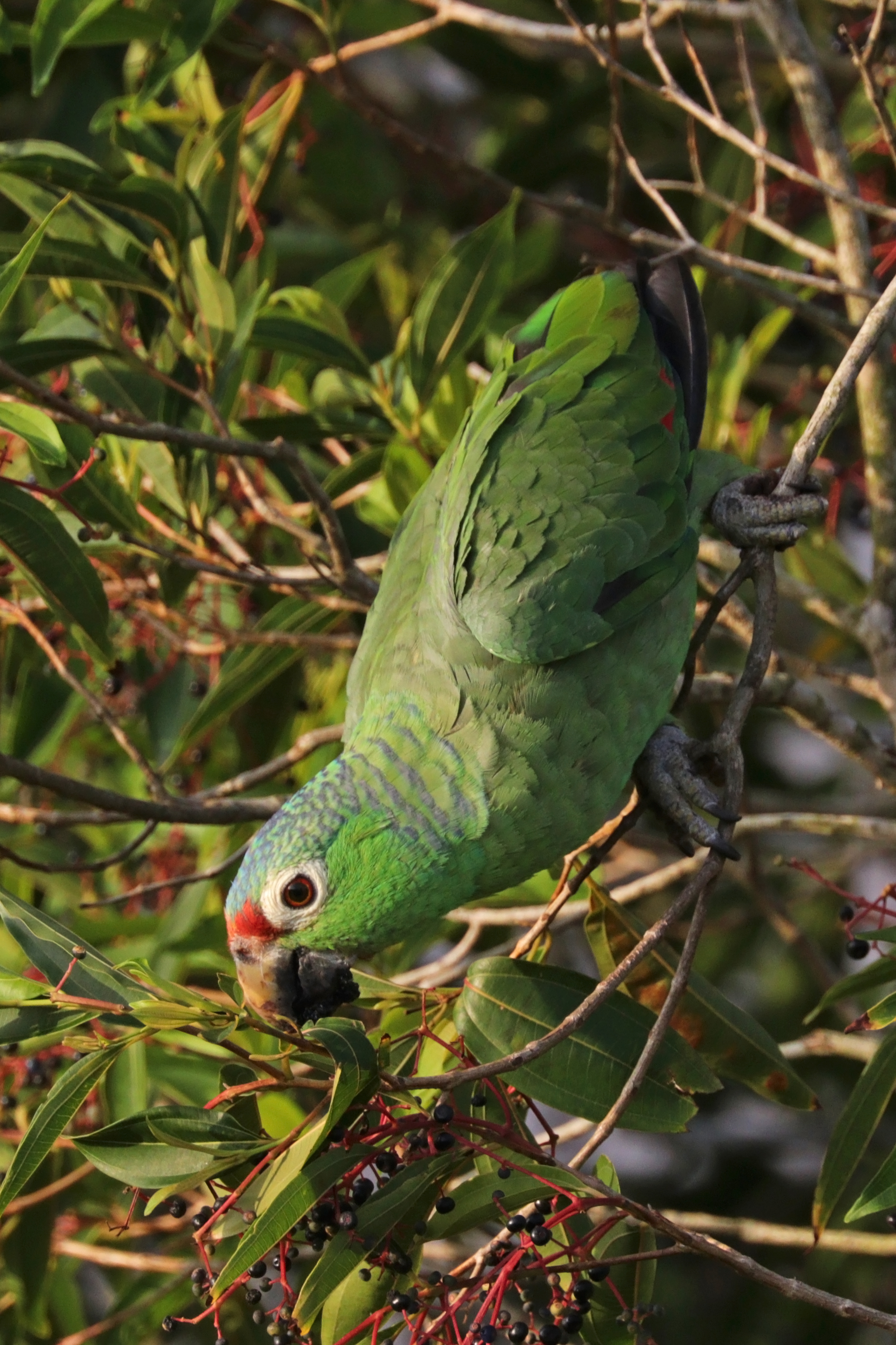 Red-lored parrot (Amazona autumnalis salvini) feeding. Taken from Canopy Tower, Panama